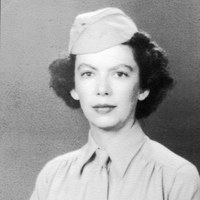 Elizabeth Sudmeier recruiting picture in 1944